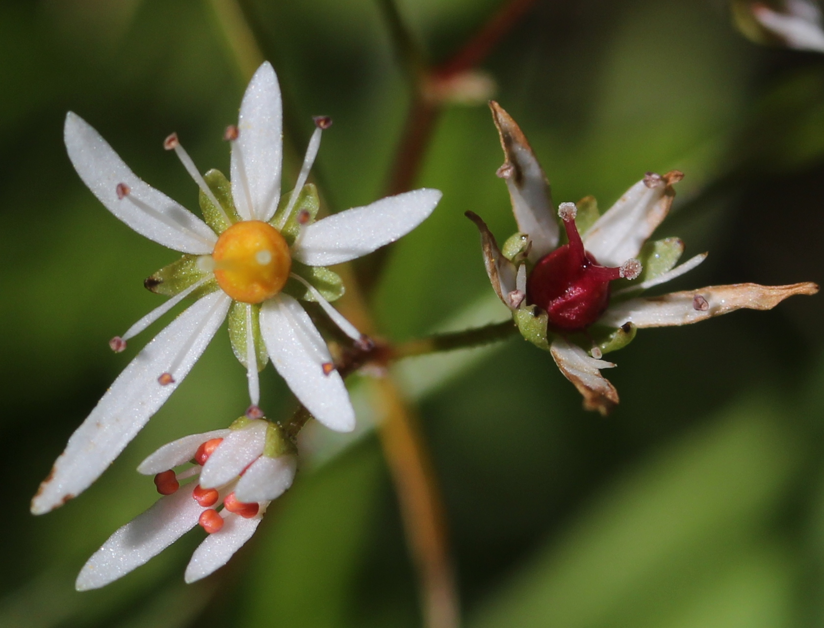 Saxifraga fortunei var. incisolobata f. alpina, on Hayatsuki ridge of Mount Tsurugi, Kamiichi, Toyama prefecture, Japan.